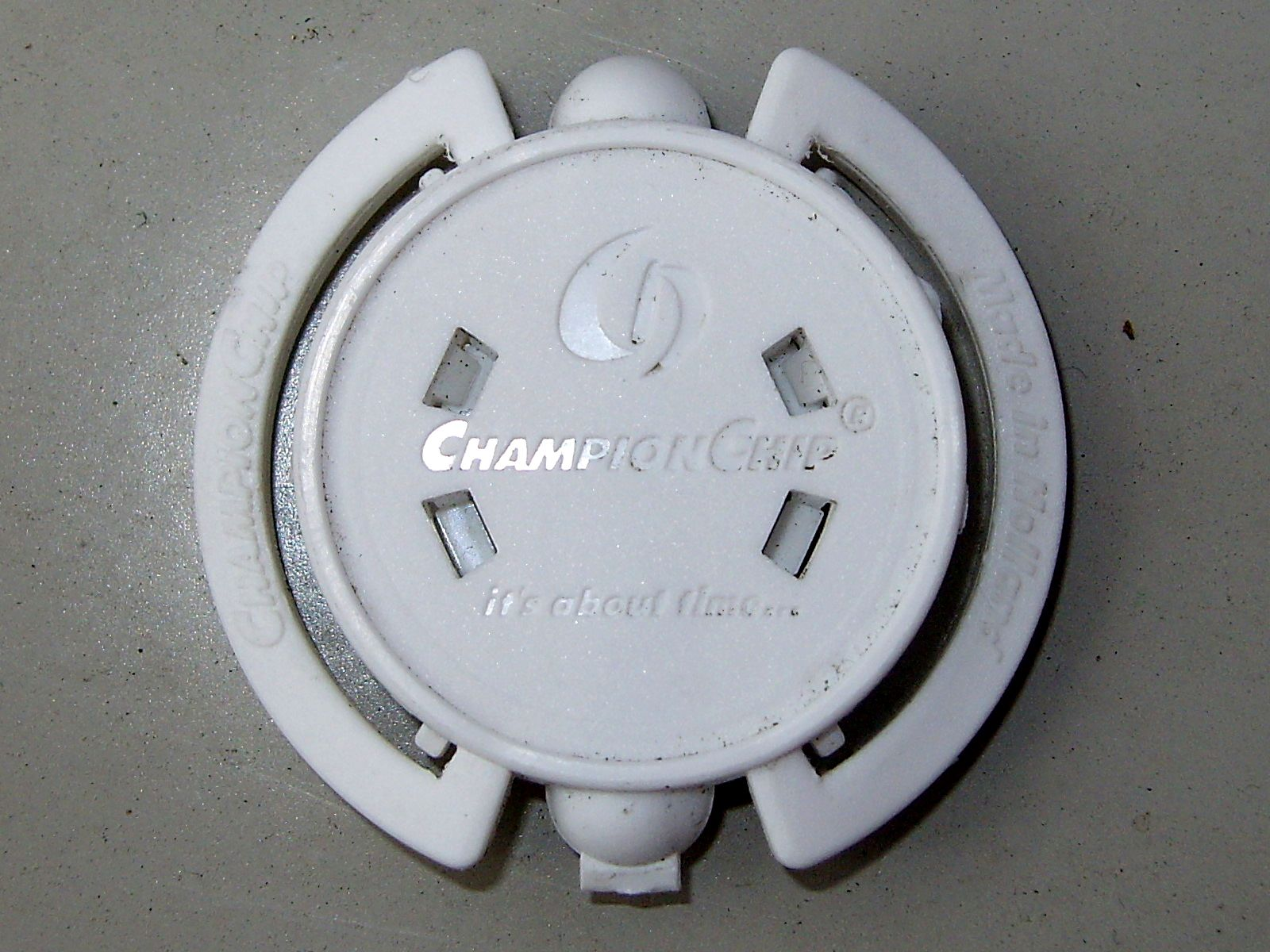 The "ChampionChip", Official Chip of ING Taipei Marathon.